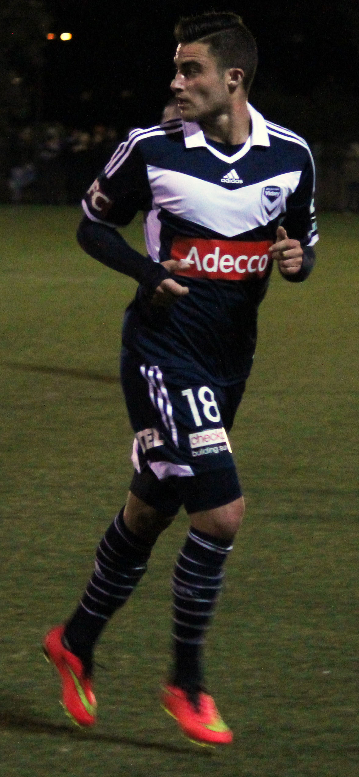 Jesse Makarounas playing a pre-season friendly for Melbourne Victory in 2014